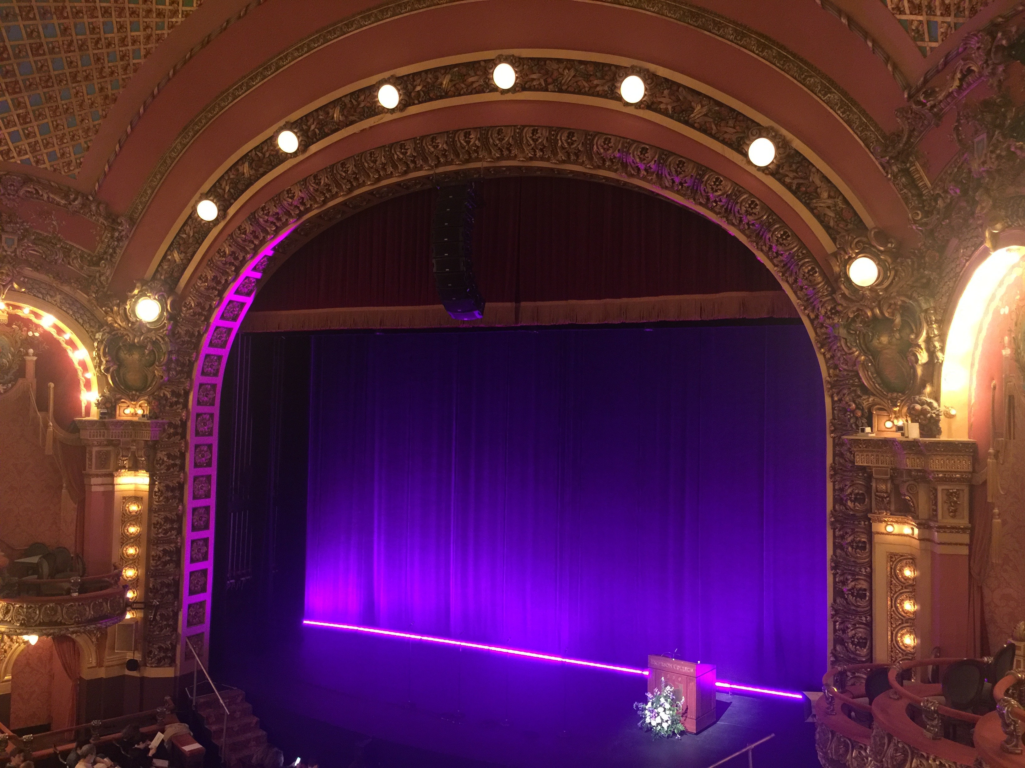 Inside of Emerson College's Cutler-Majestic Theater located in Boston, MA